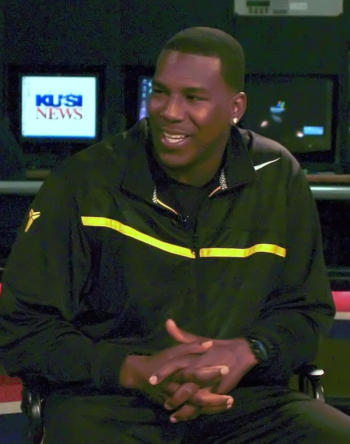 A photo of San Diego Chargers football player Antonio Gates.